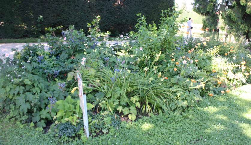 Lednice na Moravě, Czech republic, english park